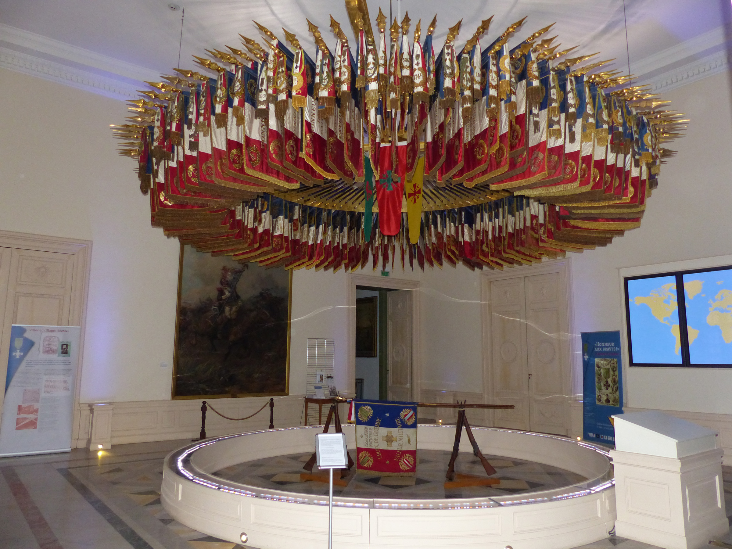 Flagg collection Castle Vincennes